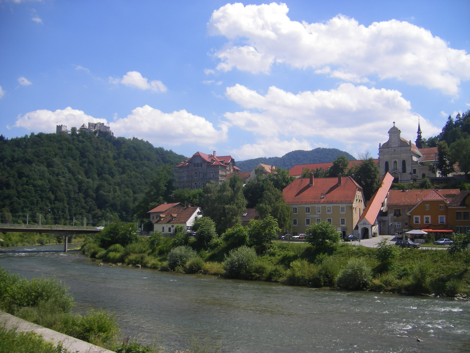 Celje - Savinja River, Breg (Bank), St. Cecilia's Church and The Capuchin Monastery Monastery.